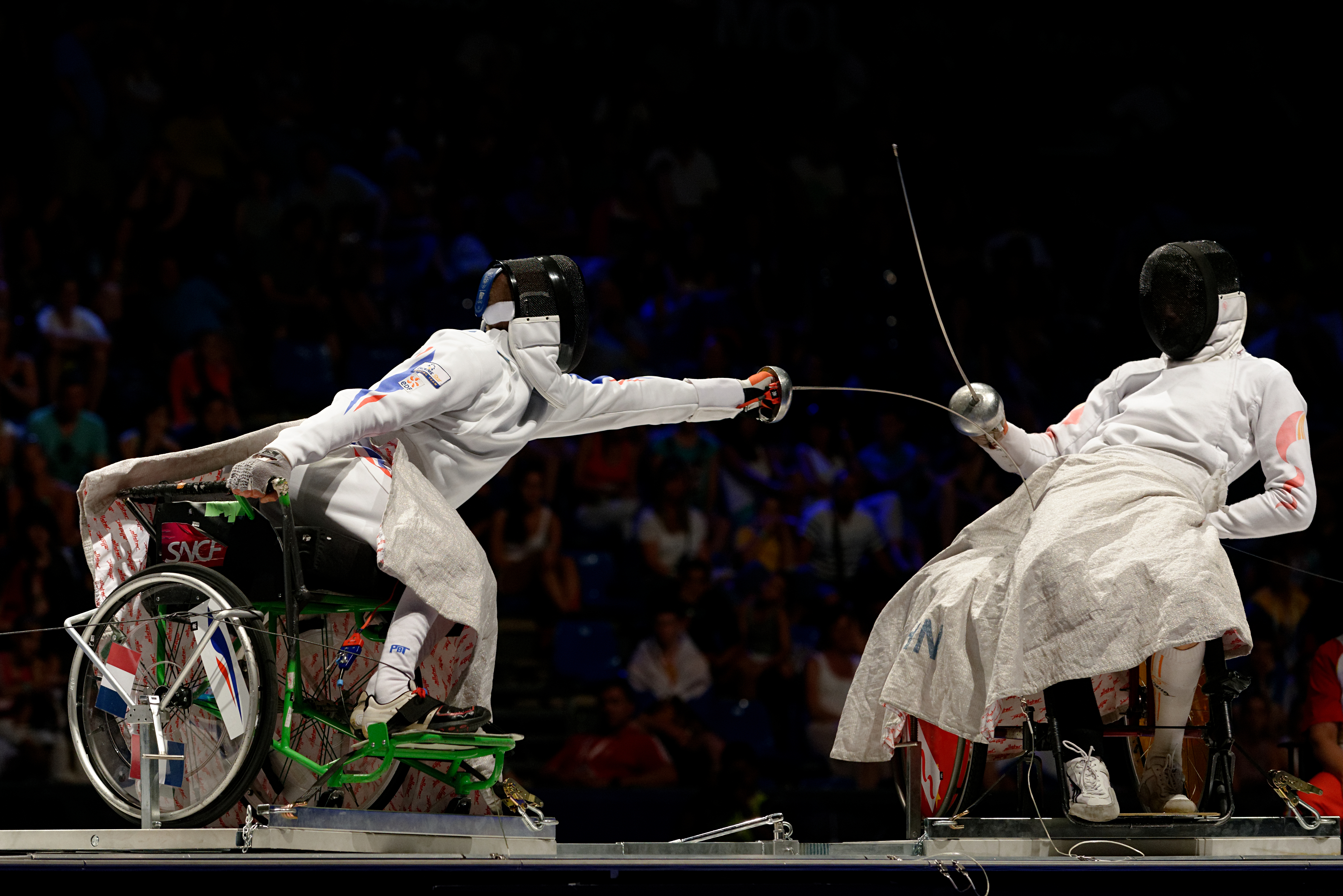 France's Romain Noble (L) fences against Tian Jianquan of China (R) in the final of the men's épée A event in the 2013 IWAS World Wheelchair Fencing Championship at Syma Hall in Budapest on 8 August 2013.